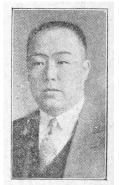 Jin Bidong (Chin Pi-tung) (1894 - 1941)